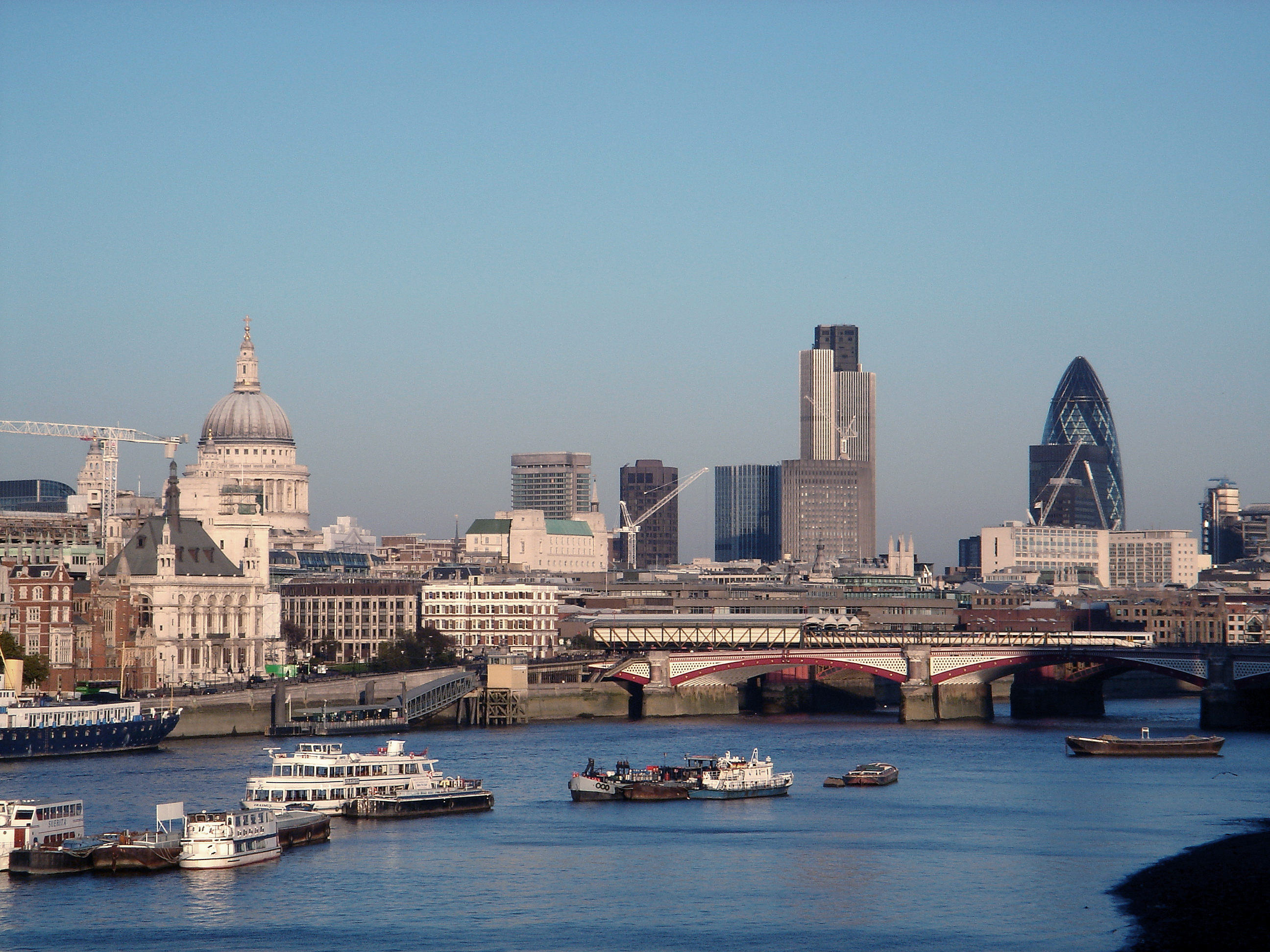 London skyline with the River Thames in the foreground.